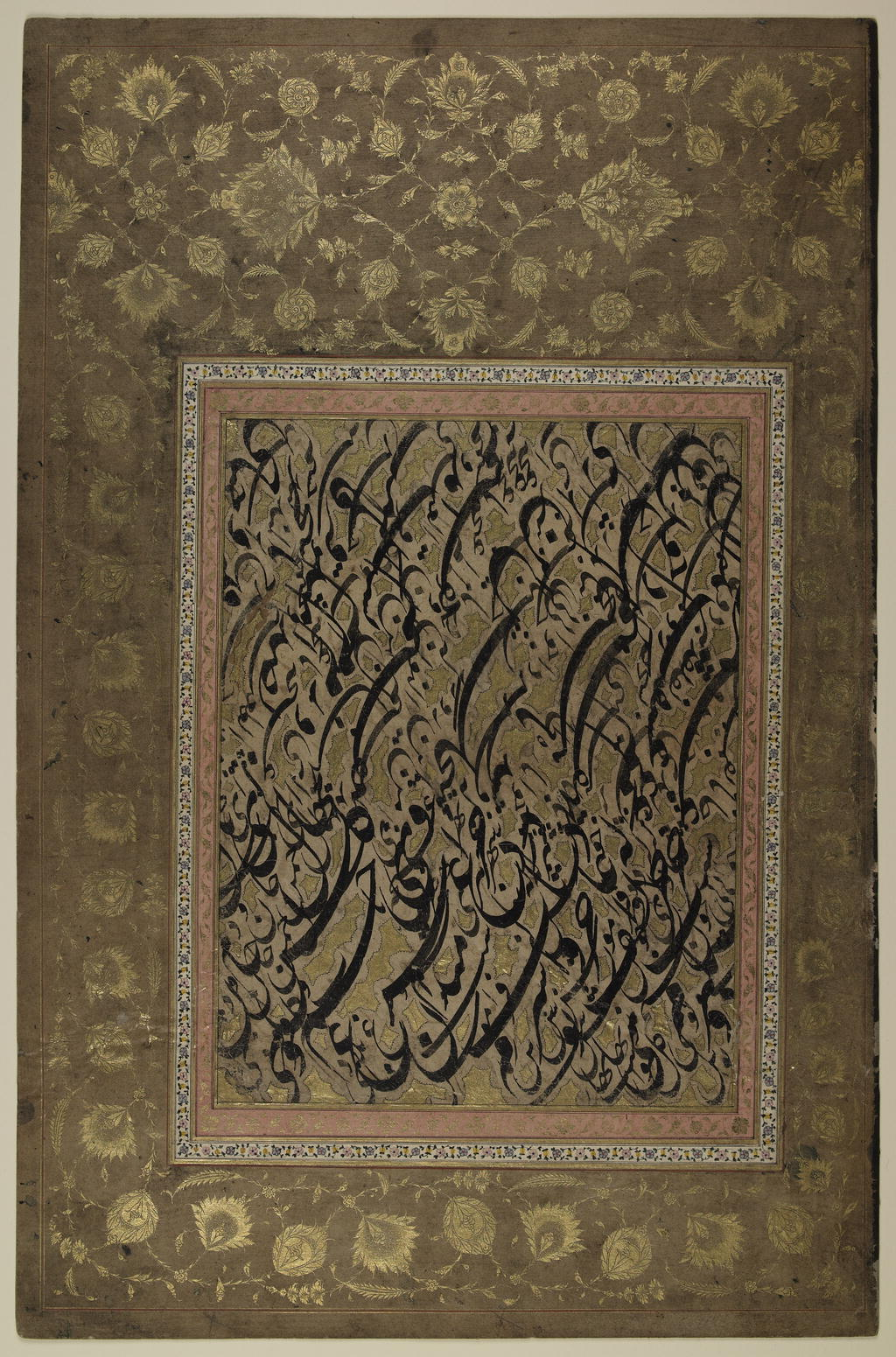 This calligraphic practice sheet includes a number of diagonal words and letters used in combinations facing upwards and downwards on the folio. The common Persian cursive script nasta'liq is favored here over the more "broken" shikastah script. These sheets -- known as siyah mashq (lit. black practice) in Persian -- were entirely covered with writing as a means to practice calligraphy and conserve paper. In time, they became collectible items and thus were signed and dated (this fragment, however, does not appear signed or dated). Many fragments such as this one were provided with a variety of decorative borders and pasted to sheets ornamented with plants or flowers painted in gold. For example, a number of siyah mashq sheets executed at the turn of the 17th century by the great Iranian master of nasta'liq script, 'Imad al-Hasani (d. 1024/1615), were preserved and provided with illumination by Muhammad Hadi ca. 1160-1172/1747-1759 (Akimushkin 1996: 65, 70, 87, and 91). As an established genre, practice sheets abided to certain rules of formal compositions, largely guided by rhythm and repetition (Safwat 1996, 32). Although siyah mashq sheets survive from ca. 1600, they seem to have been a particularly popular genre during the second half of the 19th century, i.e., during the artistic revival spearheaded by the Qajar ruler Nasir al-Din Shah, who reigned 1848-1896 (Mehdi Zadeh 1369/1950: 44-45 and 54-55; and Diba and Ekhtiar 1998: 239-41). A number of other siyah mashq sheets are held in the Library of Congress. See in particular 1-87-154.45, 1-84-154.46, 1-85-154.88, 1-87-154.142, and 1-86-154.144.